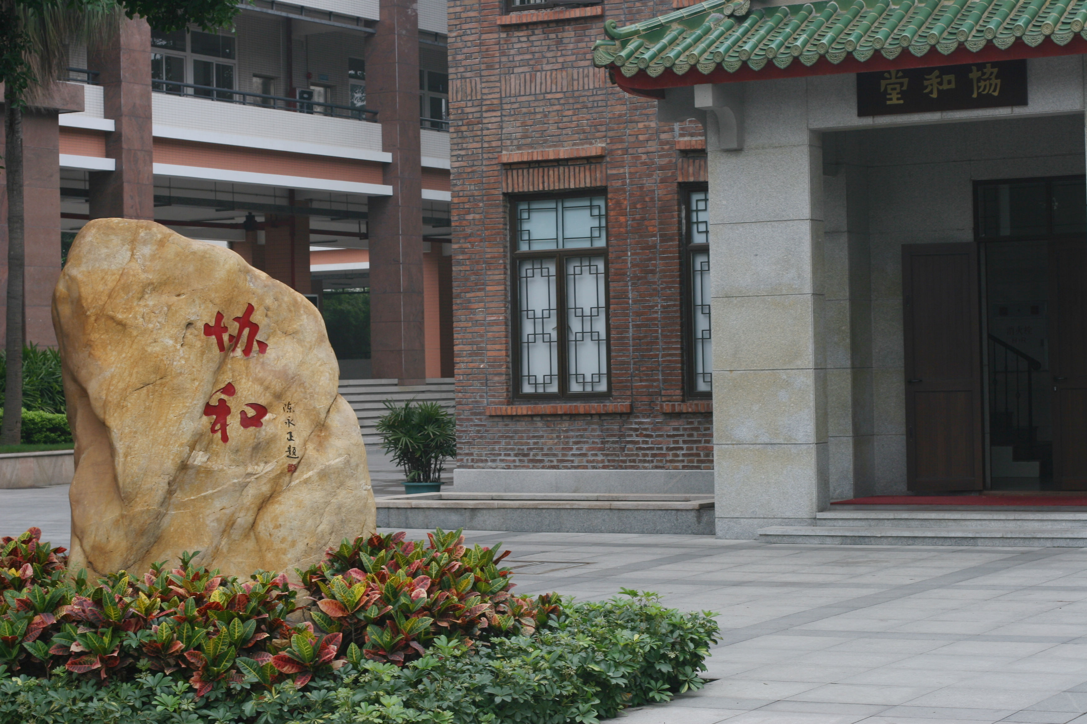 The Xiehe House of Guangzhou Xiehe High School